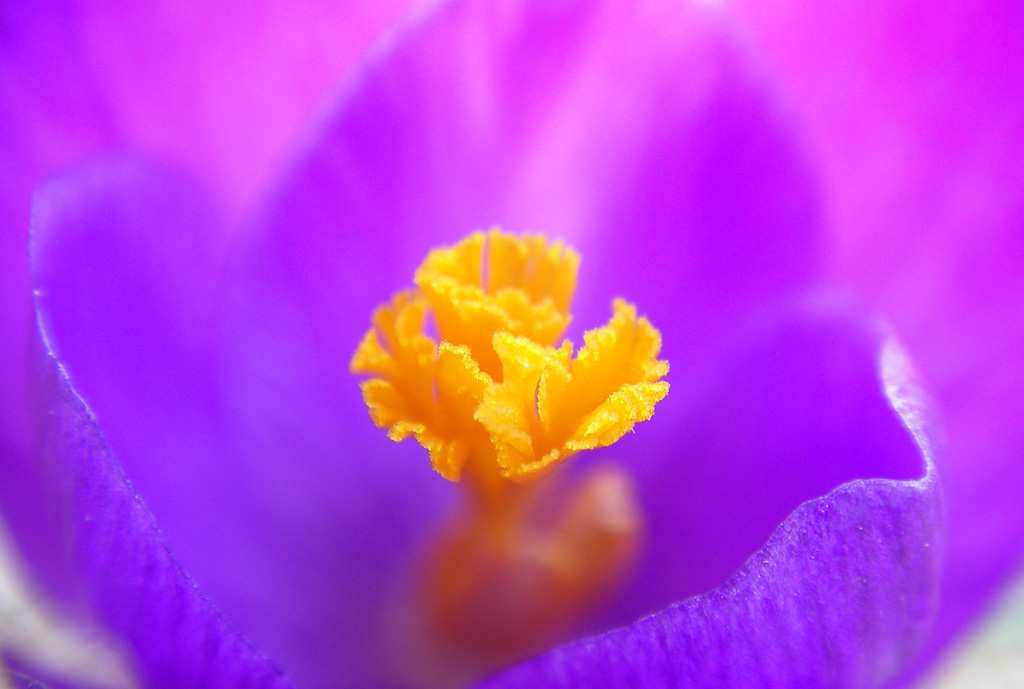 Crocus. This is the cropped version of this shot